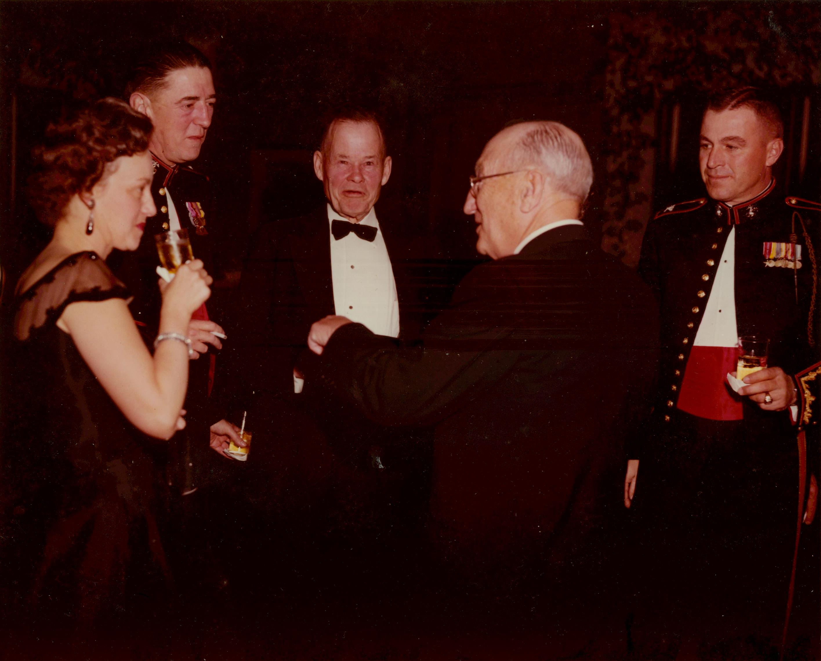 From the Lewis B. Puller Collection (COLL/794) at the Marine Corps Archives and Special Collections OFFICIAL USMC PHOTOGRAPH